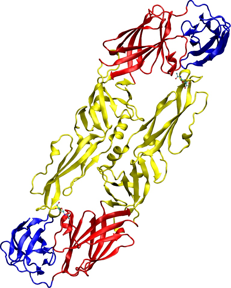 Overview of TBEV envelope protein E. Image prepared with VMD.